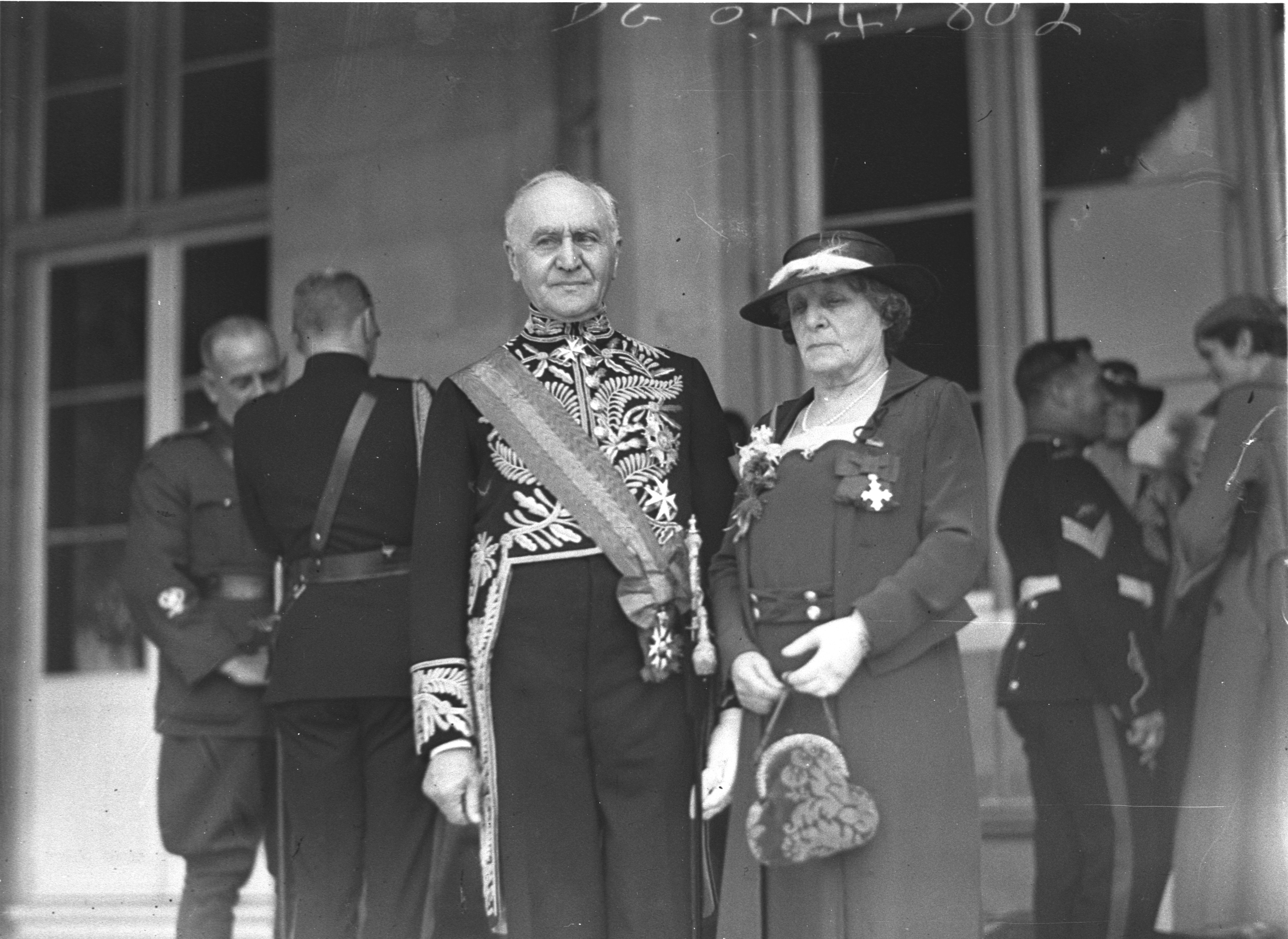 Sir Isaac Isaacs and Lady Isaacs Format: Glass photonegative Notes: First Australian-born Governor-General From the collections of the Mitchell Library, State Library of New South Wales